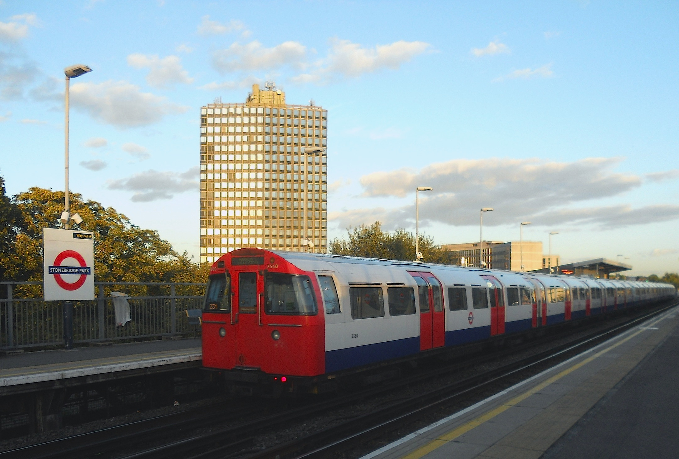 A London Undergound refurbished Bakerloo line 72 Tube Stock train at Stonebridge Park